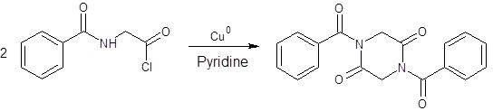 ACD Labs